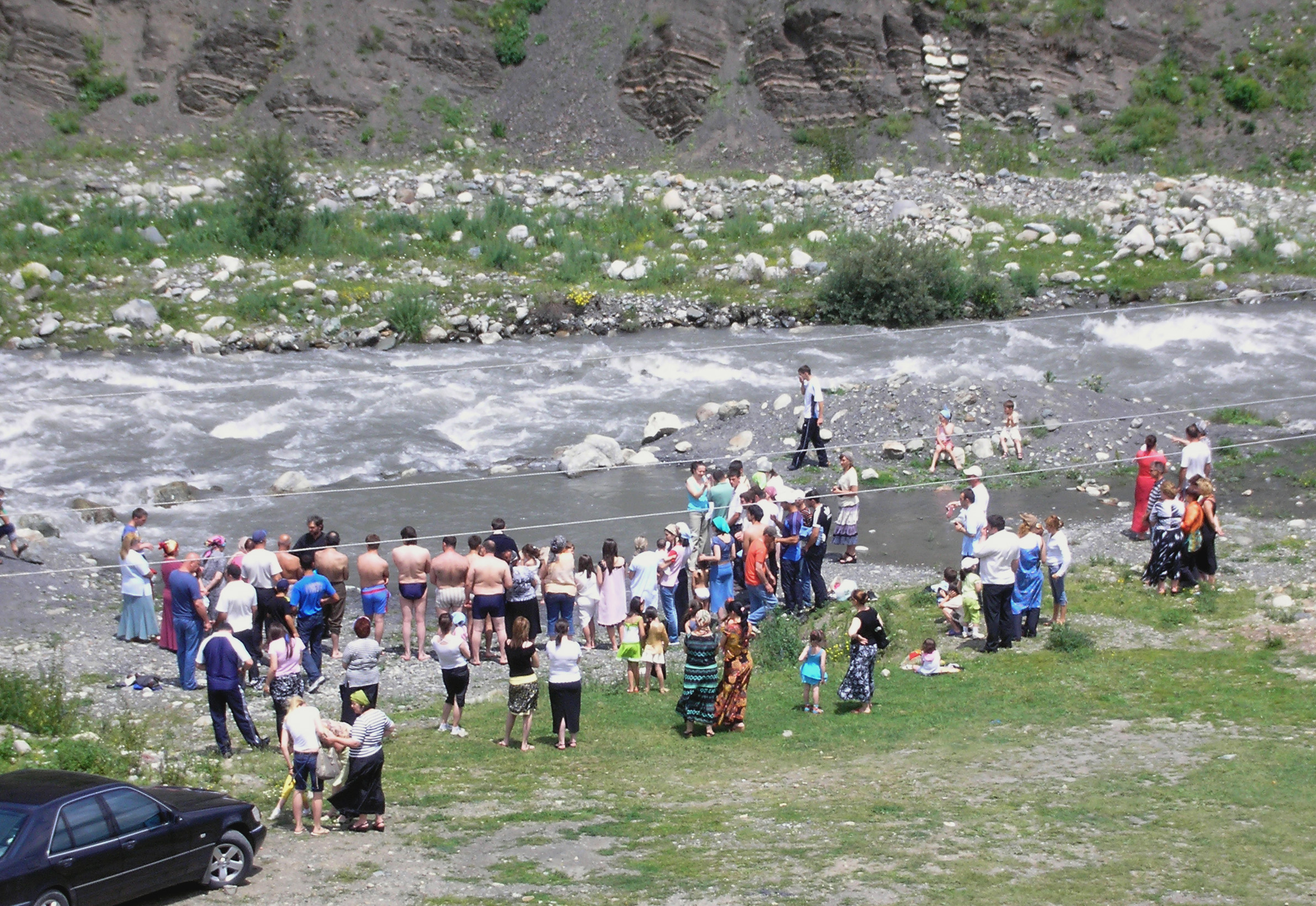 Mass baptism on the Fiagdon river near Alan Dormition monastery in North Ossetia, Russia